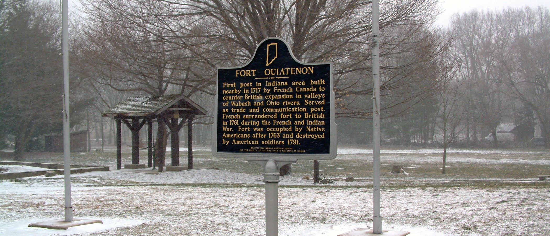 The historical marker at Fort Ouiatenon in Tippecanoe County, Indiana. It reads: Fort Ouiatenon First post in Indiana area built nearby in 1717 by French Canada to counter British expansion in valleys of Wabash and Ohio rivers. Served as trade and communication post. French surrendered fort to British in 1761 during the French and Indian War. Fort was occupied by Native Americans after 1763 and destroyed by American soldiers 1791.